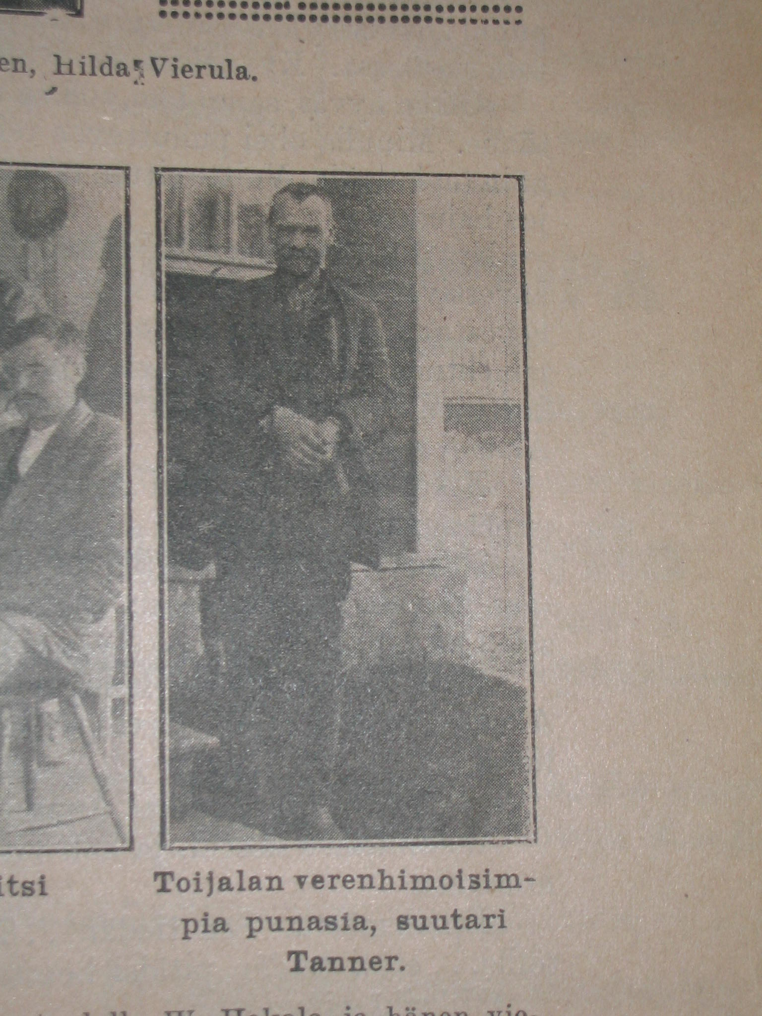 Finnish red guard leader Kalle Tanner arrested.